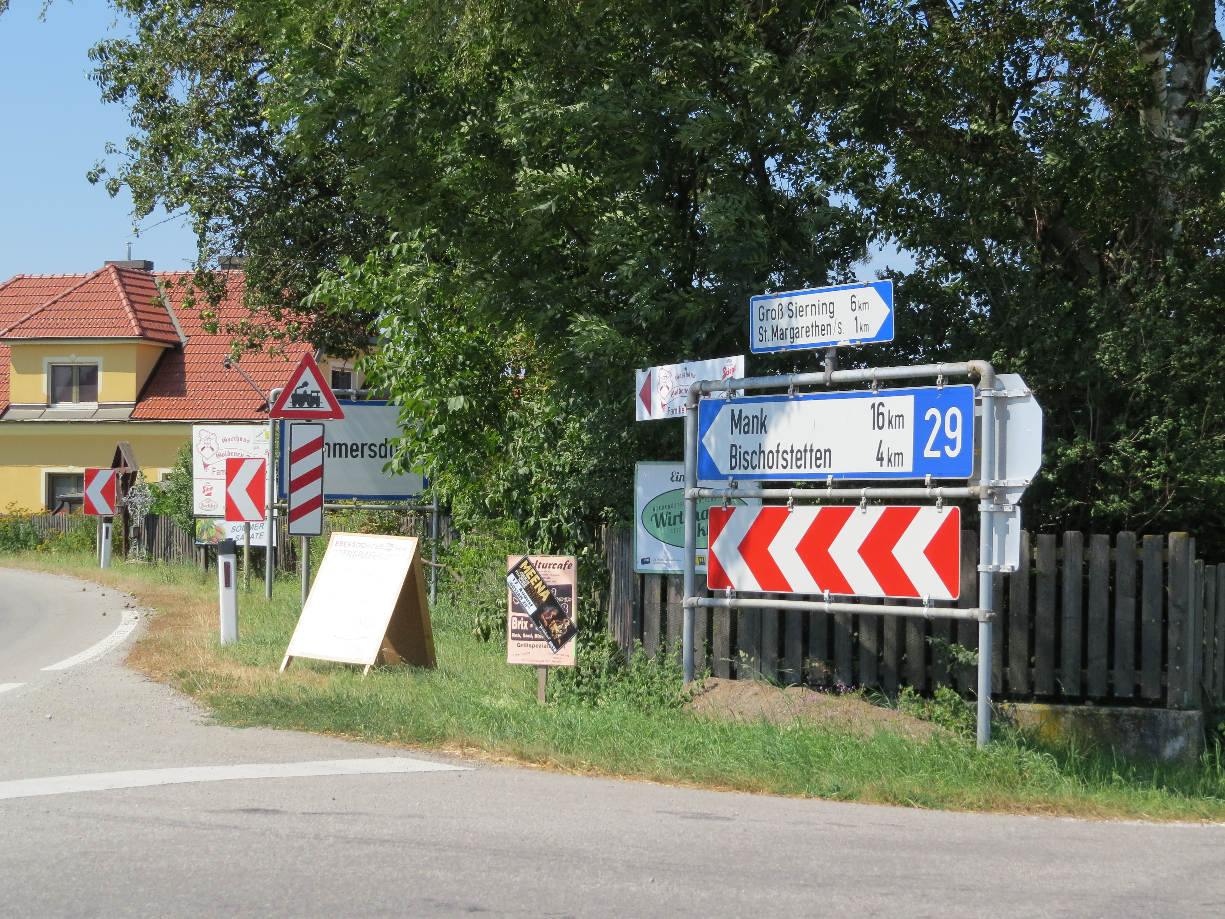 Street crossing der at B 29 Manker Straße at Rammersdorf, St. Margarethen an der Sierning, Austria